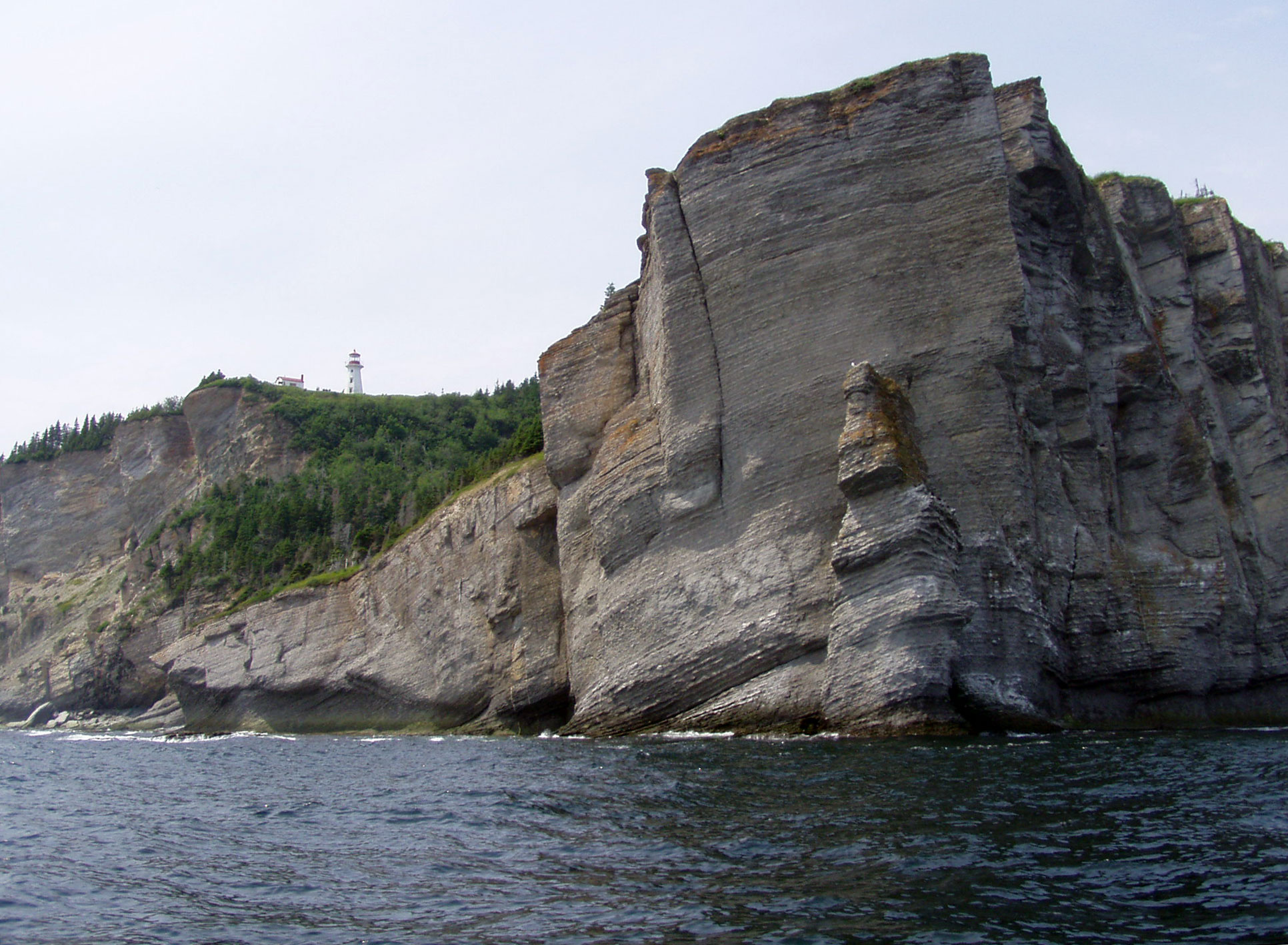 Rock formation called "Le Vieux" (the Old Man) and Cap Gaspé lighthouse at the Forillon National Park in Quebec, Canada.